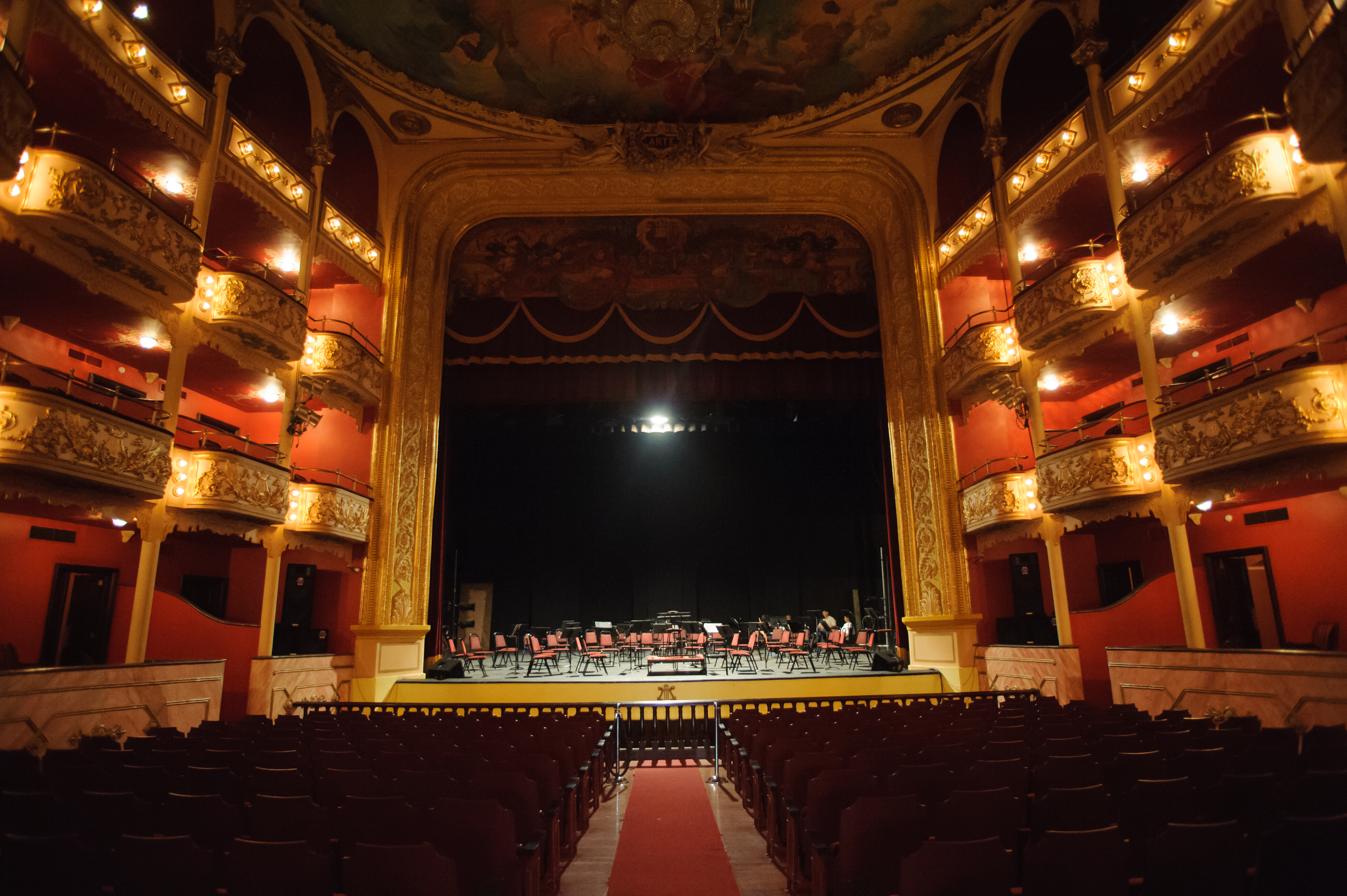 National Theater, Panama city.